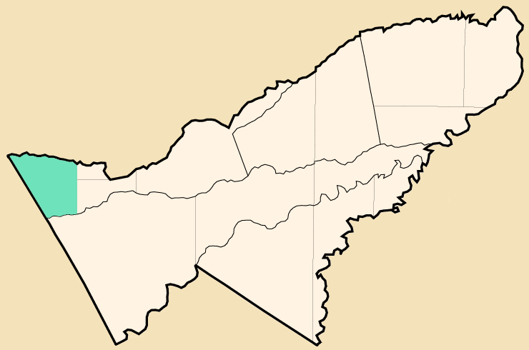 Map of Bolpebra Municipality, Nicolás Suárez Province, Pando Department, Bolivia